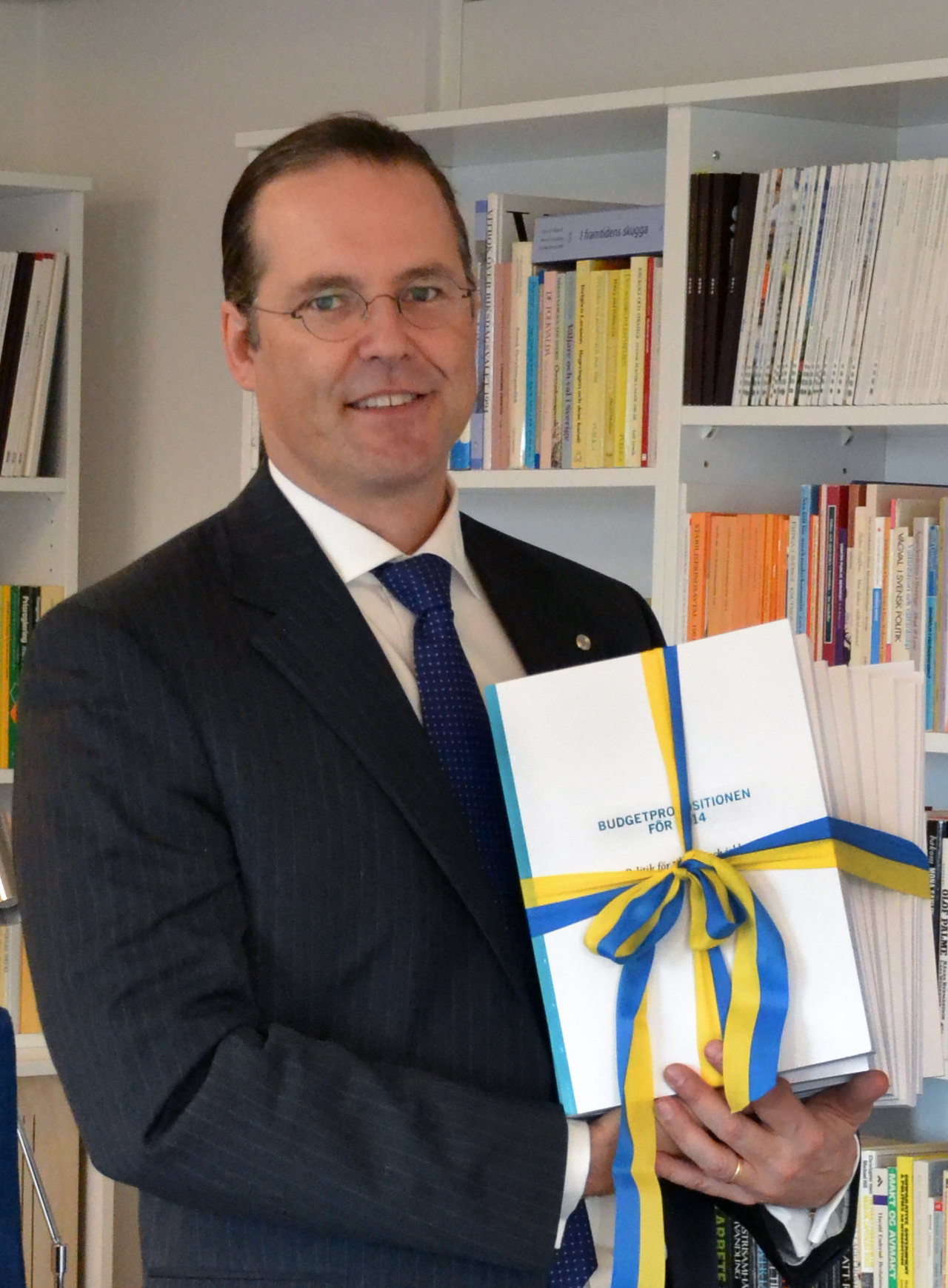 Swedish Minister for Finance Anders Borg, with the 2014 budget proposition.